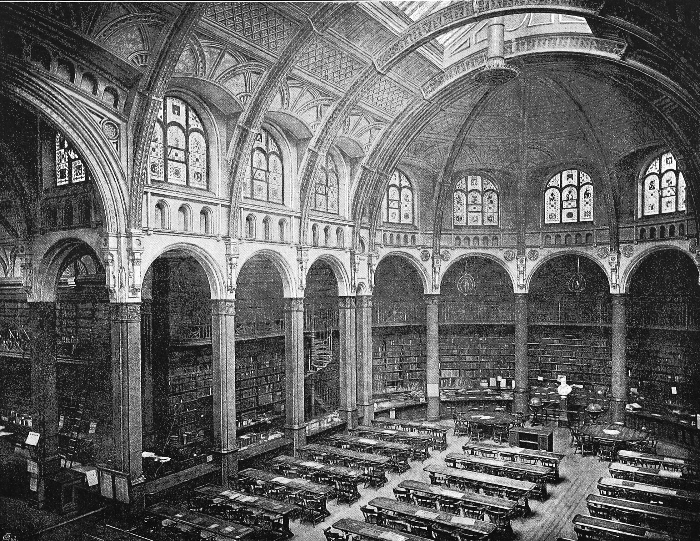 The Making of Birmingham: being a history of the rise and growth of the Midland metropolis ... With ... illustrations, etc, Birmingham Central Reference Library reading room in 1894 after the restoration following the fire.